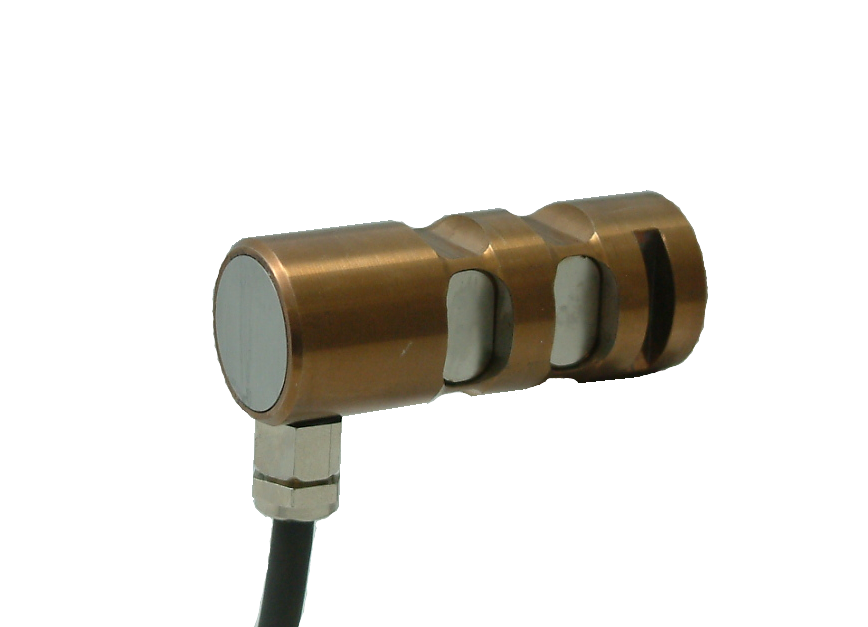 Loadpin of Batarow Sensorik GmbH